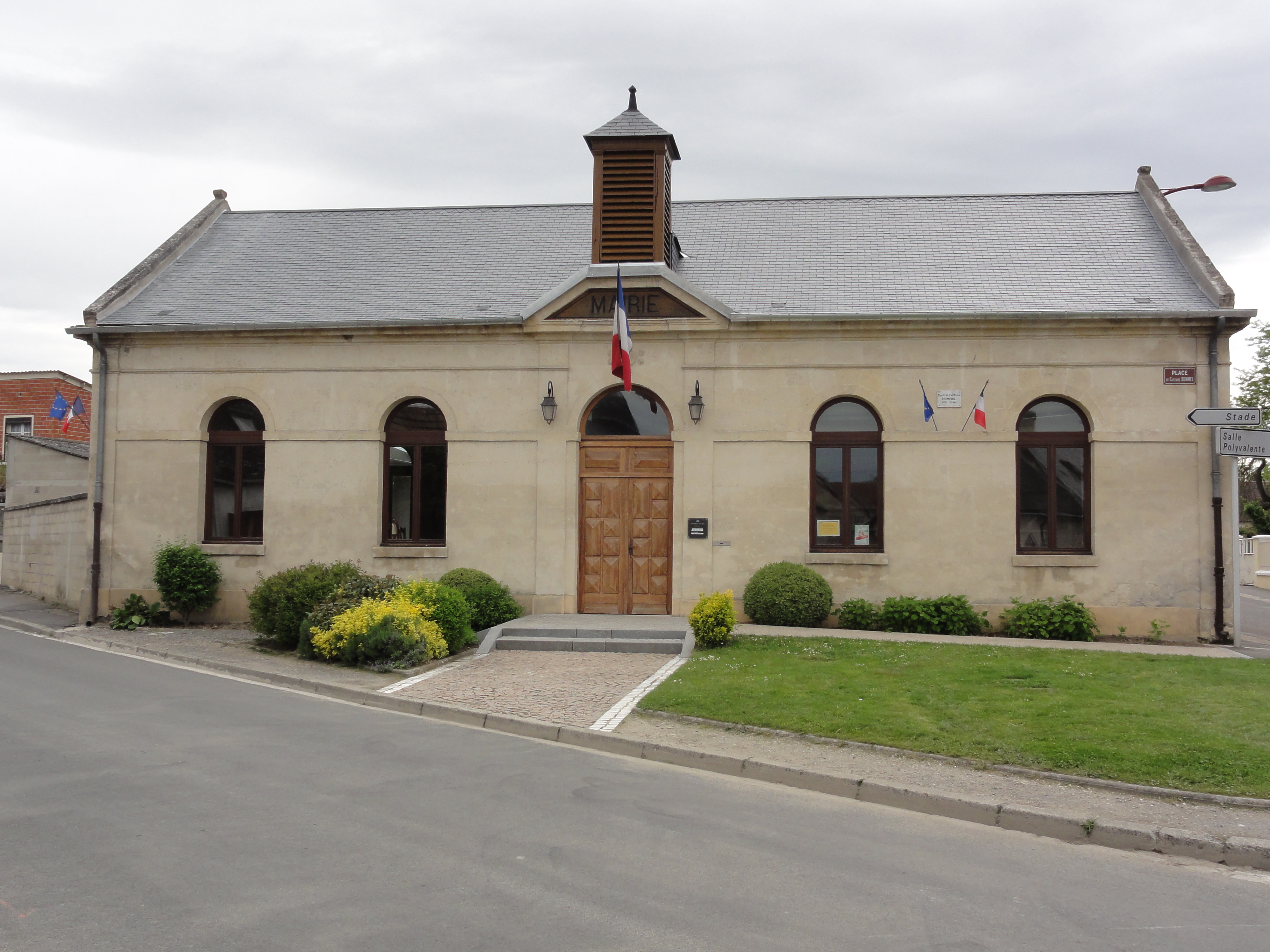 Coucy-lès-Eppes (Aisne) mairie